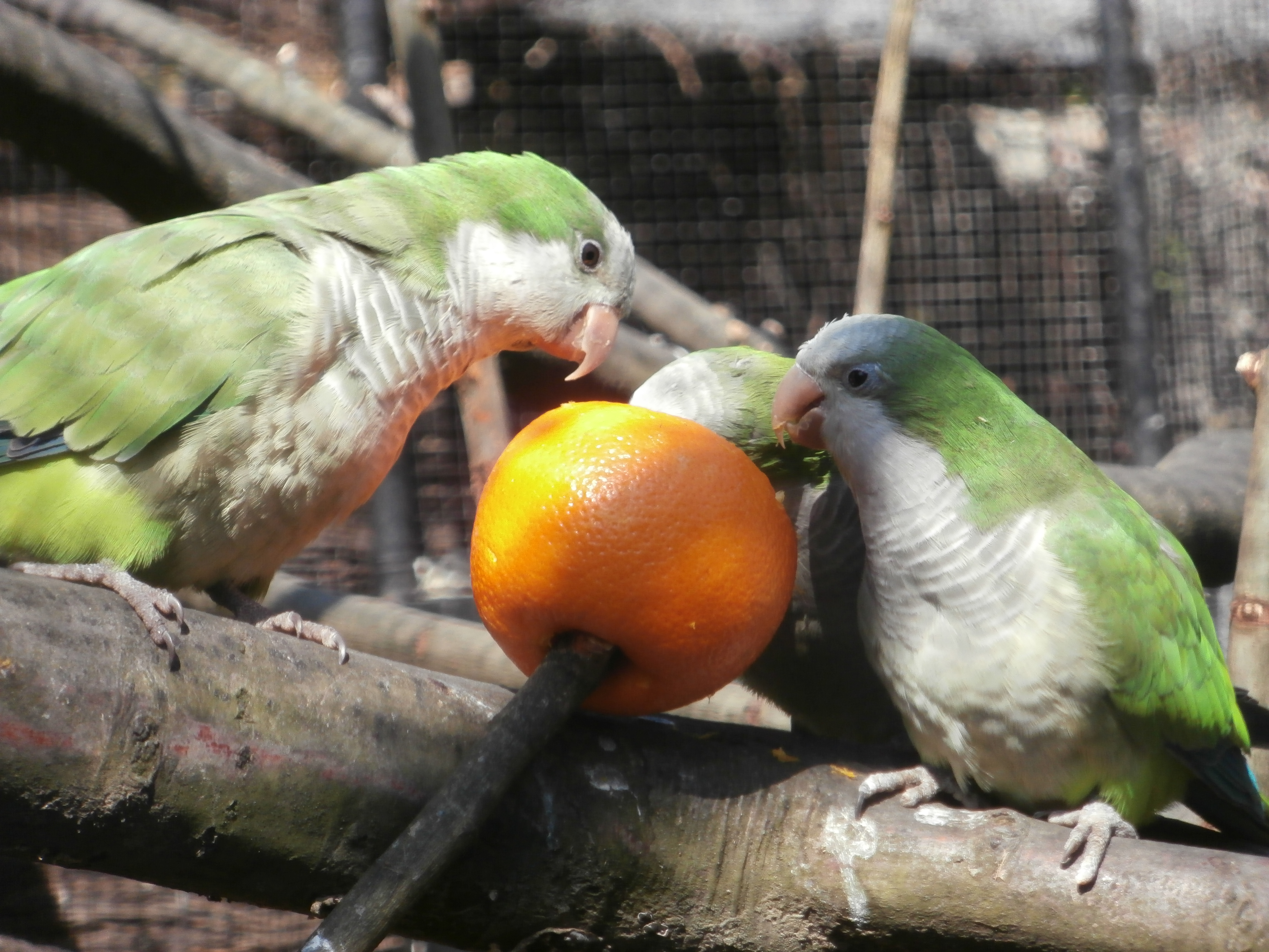 Monk parakeets eating an orange in Lille Zoo